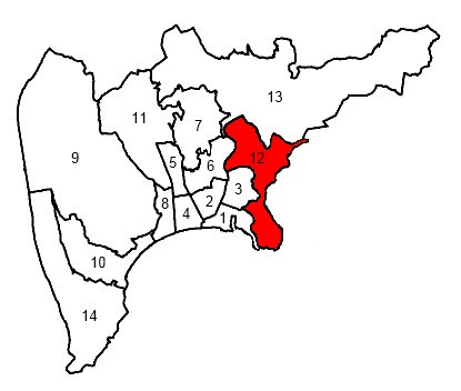 Location of canton of Nice-12 in the city of Nice, Alpes-Maritimes, France.